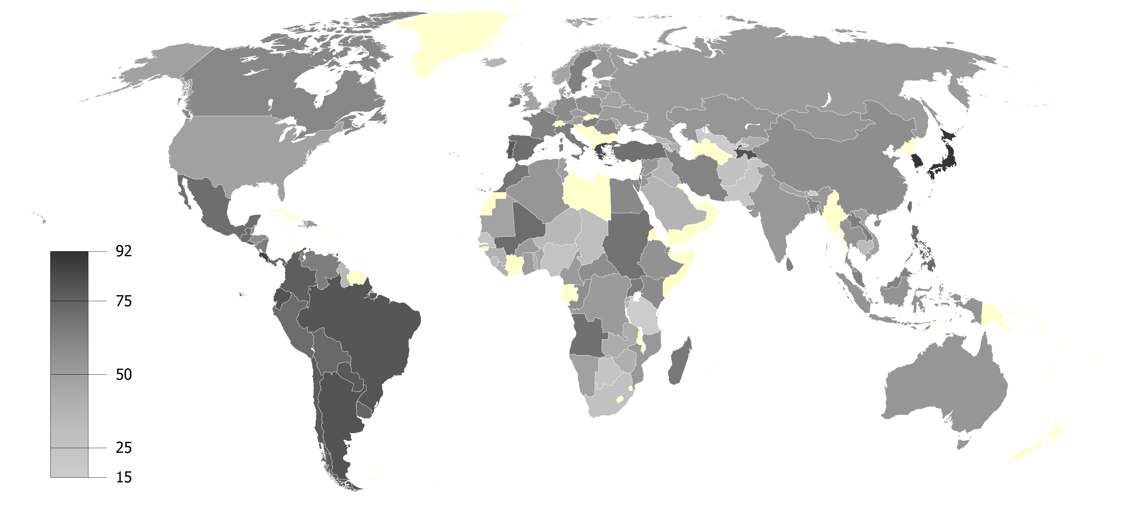 Percent responding yes when asked, "Temperature rise is part of global warming or climate change. Do you think rising temperatures are [...] a result of human activities?" This map was created with GunnMapGunnMap was created by Arthur Gunn and is available, free, at and attribute by linking to Data set: Afghanistan,29 Algeria,54 Angola,70 Argentina,81 Armenia,28 Australia,54 Austria,51 Azerbaijan,42 Bangladesh,62 Belarus,48 Belgium,50 Belize,59 Benin,46 Bolivia,73 Botswana,26 Brazil,80 Burkina Faso,52 Burundi,38 Cambodia,34 Cameroon,52 Canada,61 Central African Republic,58 Chad,31 Chile,78 China,58 Colombia,77 Costa Rica,87 Czech Republic,52 Democratic Republic of the Congo,52 Denmark,49 Djibouti,62 Dominican Republic,52 Ecuador,81 Egypt,60 El Salvador,75 Estonia,46 Ethiopia,56 Finland,53 France,63 Georgia,37 Germany,59 Ghana,51 Greece,84 Guatemala,72 Guinea,40 Guyana,36 Haiti,38 Honduras,58 Hong Kong,78 Hungary,65 Iceland,38 India,53 Indonesia,55 Iran,62 Iraq,38 Ireland,66 Israel,63 Italy,65 Japan,91 Jordan,53 Kazakhstan,54 Kenya,59 Kyrgyzstan,42 Laos,65 Latvia,54 Lebanon,64 Liberia,41 Lithuania,50 Luxembourg,60 Madagascar,67 Malaysia,63 Mali,72 Malta,68 Mauritania,48 Mexico,71 Moldova,48 Mongolia,54 Morocco,68 Mozambique,53 Namibia,49 Nepal,48 Netherlands,44 Nicaragua,66 Niger,35 Nigeria,27 Norway,47 Pakistan,25 Palestine,50 Panama,73 Paraguay,79 Peru,72 Philippines,72 Poland,58 Portugal,79 Qatar, Republic of the Congo,58 Romania,60 Russia,52 Rwanda,44 Saudi Arabia,39 Senegal,27 Sierra Leone,31 Singapore,44 South Africa,29 South Korea,92 Spain,71 Sri Lanka,63 Sudan,69 Sweden,64 Syria,54 Taiwan,70 Tajikistan,81 Tanzania,15 Thailand,55 Togo,43 Trinidad and Tobago,76 Tunisia,50 Turkey,70 Uganda,66 Ukraine,51 United Kingdom,48 United States,49 Uruguay,75 Uzbekistan,18 Venezuela,65 Vietnam,49 Zambia,43 Zimbabwe,41